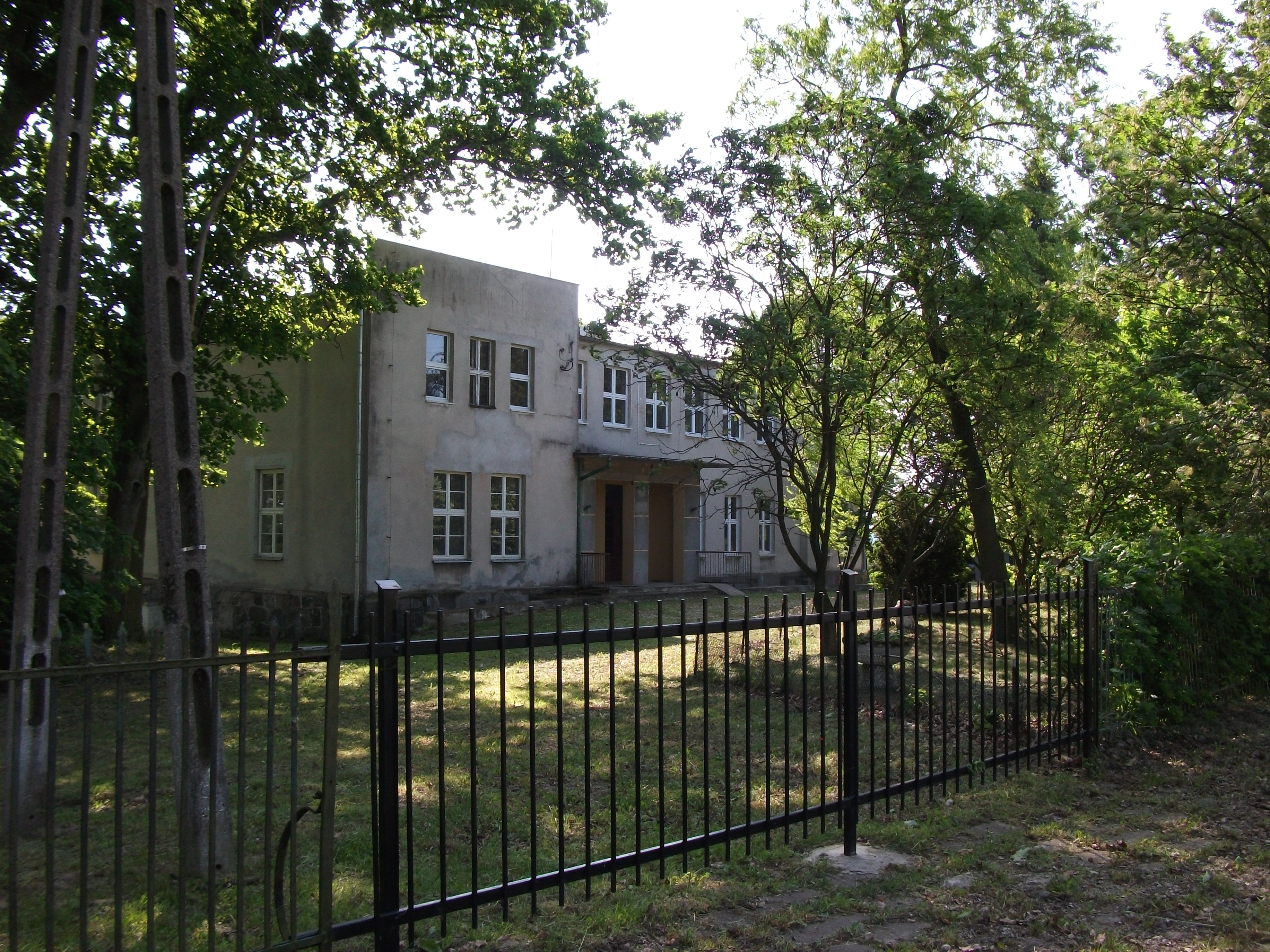 Old school in Przesławice, Łasina community